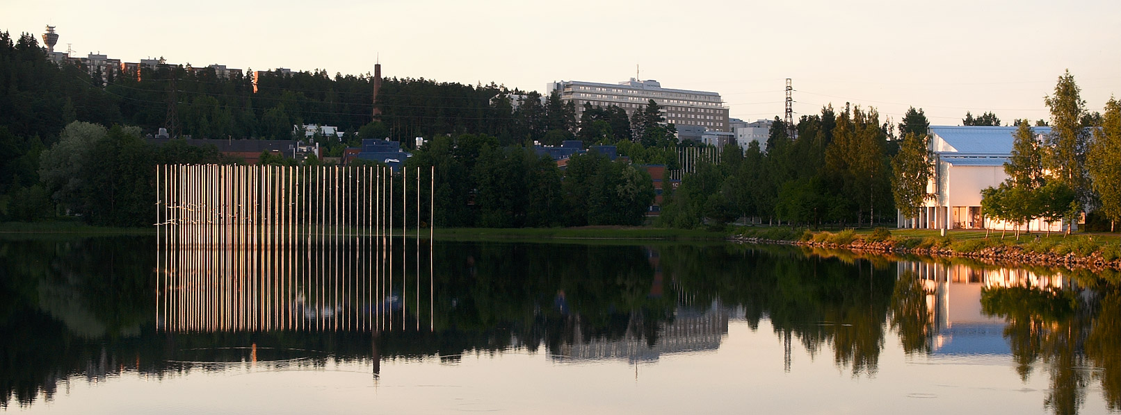 University of Kuopio campus in Savilahti, Kuopio, Finland. Sculpture in water: "Lentoon" by architect Markku Viitasalo in 1982. In background: Puijo tower and Kuopio University Hospital (white/grey).